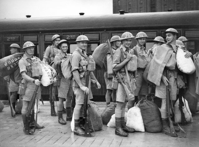 Troops from the 2/19th Australian Infantry Battalion awaiting embarkation for Singapore/Malaya at Sydney, 5 February 1941